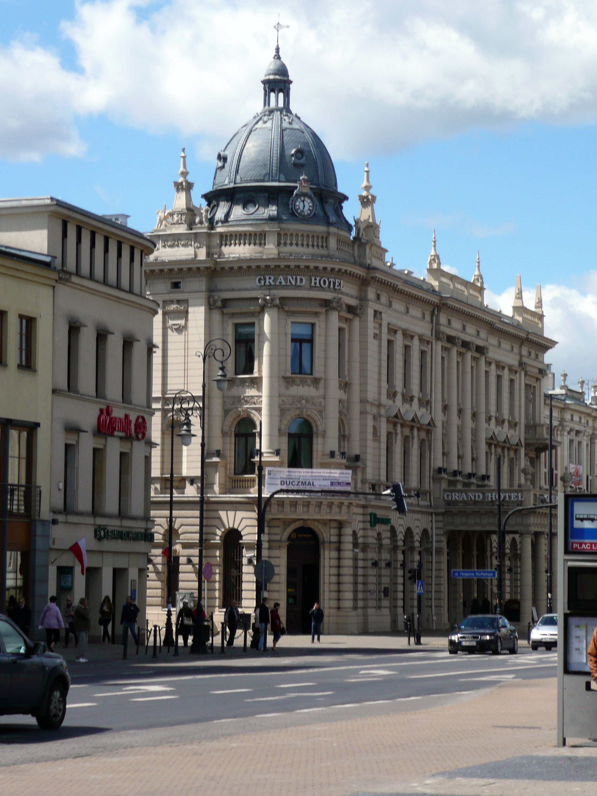 Grand Hotel Lublinianka